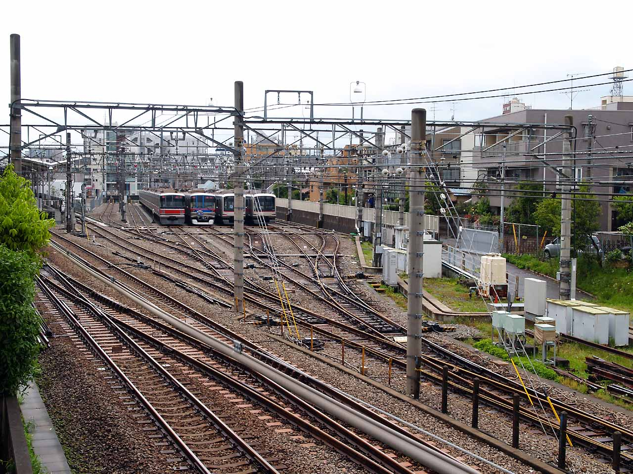 view of Tokyu Okusawa yard from footbridge.